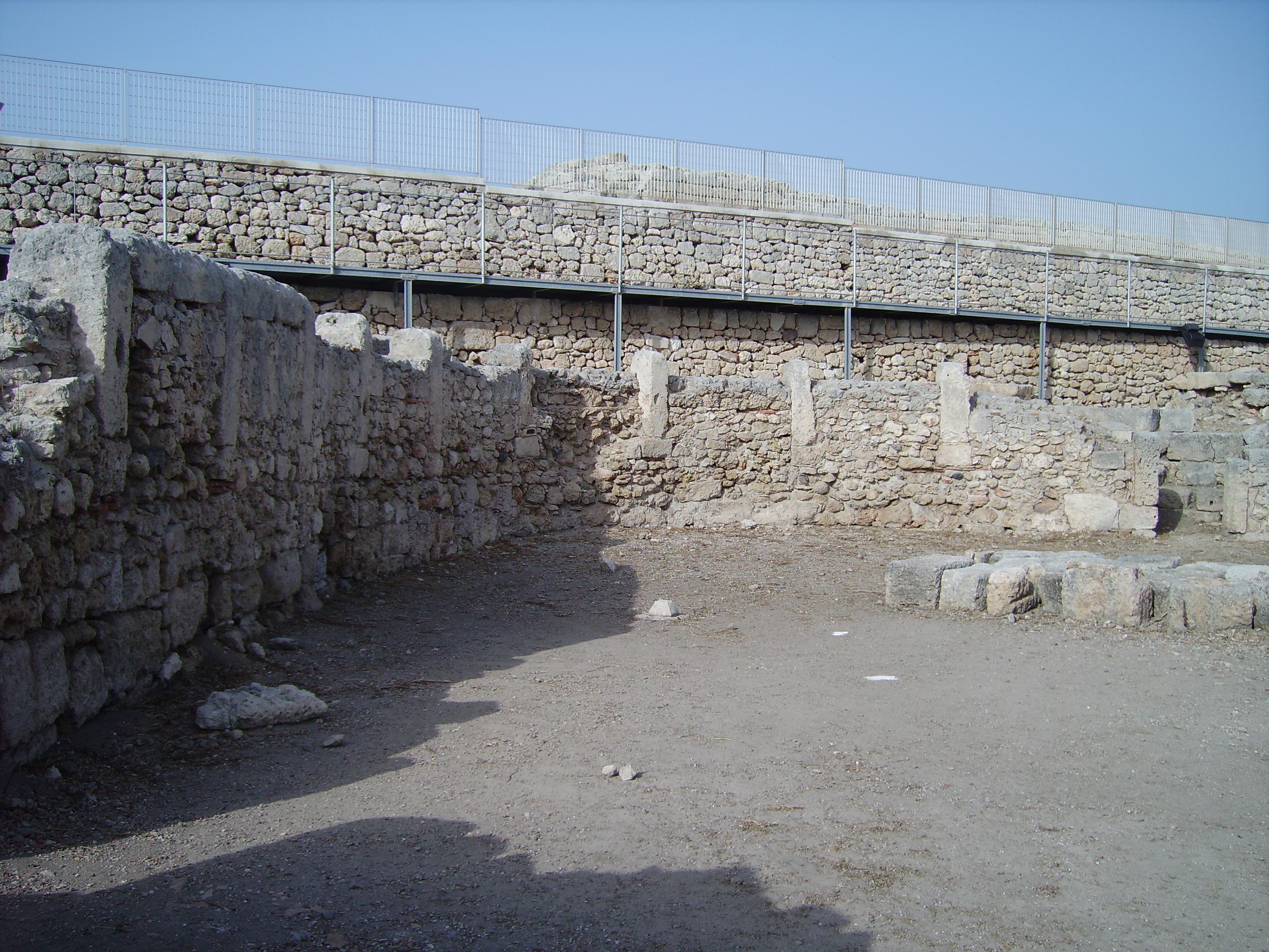 Opus africanum in Egnazia's Metroon, dedicated to goddess Cybele. The usage of this reproduction of a "cultural good" may be restricted by Italian laws, which requires a payment to the local Soprintendenza (government department responsible for the environment, historical buildings, monuments and other treasures) for any use of reproductions of these goods (article 107) that are not for a personal or educational purpose (article 108). Wikimedia Commons is not required to comply as it is hosted in the United States of America. Users who are citizens of Italy are warned that they are solely responsible for any possible violation of local laws. See our general disclaimer for more information. These restrictions are independent of the copyright status of the depicted work. The following are considered cultural heritage assets (article 10): state owned things with some artistic, historic, archeological or ethno-antropological interest such as artworks displayed in museums or galleries, archeological remains, historical buildings, libraries, archives collections, places of cultural and artistic interest, photographs, and other items declared cultural heritage by the Ministry of Cultural Heritage and Activities unless explicitly removed on a case by case basis. The national catalog of cultural heritage assets is not publicly accessible. Reproductions of Italian works classified as "cultural goods" may only be displayed on the Italian Wikipedia using the appropriate copyright tag under its Exemption Doctrine Policy. This requires that they be locally uploaded, low resolution, and must have a rationale for their use. The full-resolution copies on Commons must not be used.